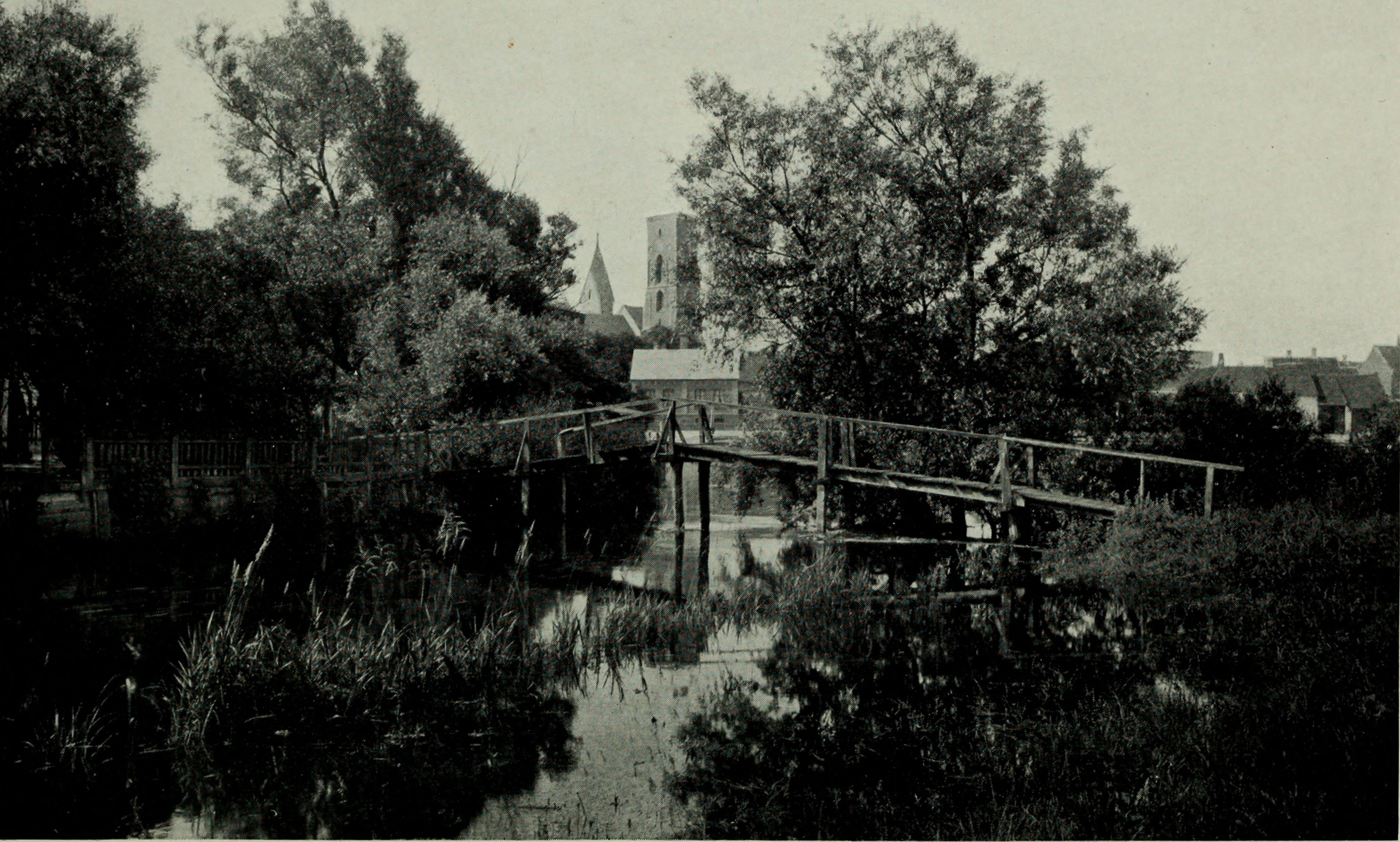 Title: Rural Denmark and its lessons Year: 1911 (1910s) Authors: Haggard, H. Rider (Henry Rider), 1856-1925 Subjects: Agriculture Agriculture, Cooperative Publisher: London New York Bombay Calcutta : Longmans, Green and Co. Text Appearing Before Image: ' Text Appearing After Image: 2 RURAL DENMARK AND ITS LESSONS BY H. RIDER HAGGARD Get wisdom, get understanding; Yea, with all thou hast gotten get understanding WITH 28 ILLUSTRA TIONS LONGMANS, GREEN AND CO. 39 PATERNOSTER ROW, LONDON NEW YORK, BOMBAY, AND CALCUTTA 1911 All rights reserved ffiN This book is dedicated to The Farmers of Denmark in token of the admiration of a foreign agriculturistfor the wisdom and brotherly understanding thathave enabled them to triumph over the difficulties ofsoil, climate, and low prices, and, by the practiceof general co-operation, to achieve individualand national success. DlTCHINGHAM, March 1911. AUTHORS NOTE In collecting the material for this book its authorfollowed the method of actually inspecting Danishfarms of various sizes, and taking careful notes onthe spot of what he saw and heard. The results recorded in these pages may there-fore be accepted as accurate to the best of hisknowledge and belief. In the same way he inter-viewed personally the different authorities whoruraldenmarkitsl00hagg